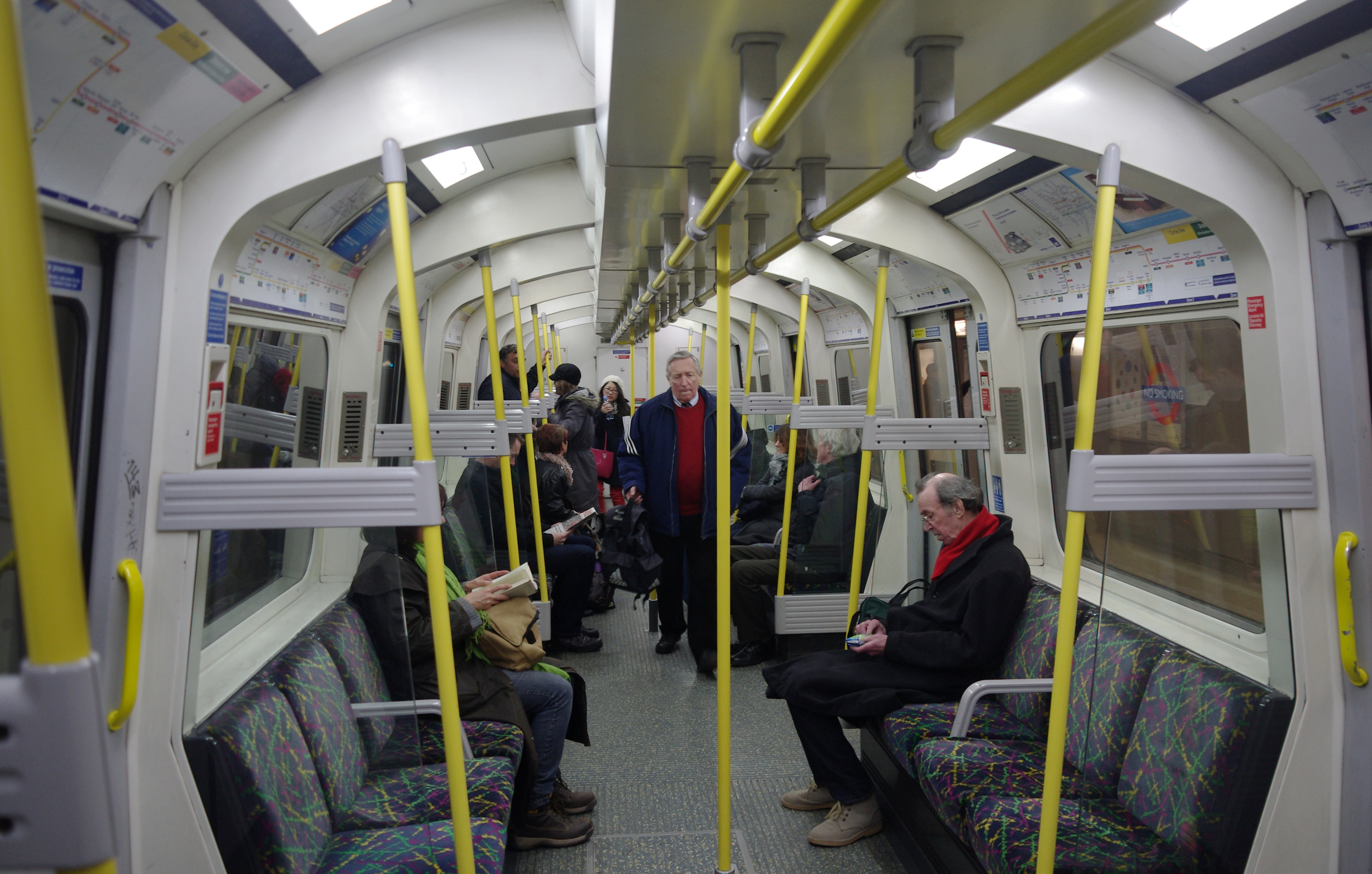 Interior of a Hammersmith & City Line London Underground C Stock Unit at King's Cross St Pancras tube station.